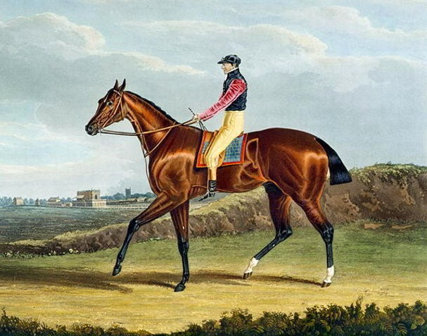 Painting of the racehorse Theodore by John Frederick Herring (1795-1865). ca. 1822. Artist dead for 147 years.